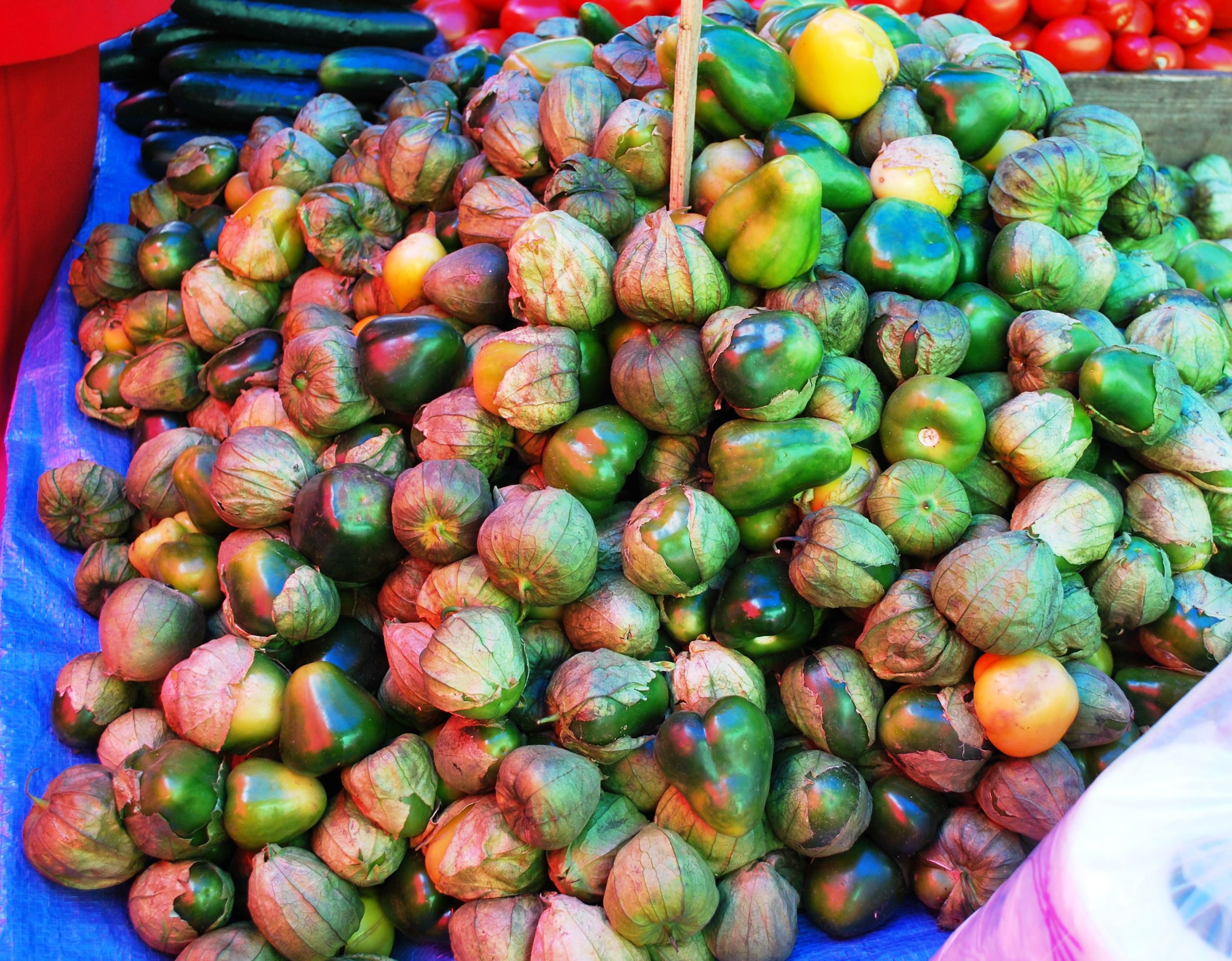 In central Mexico, these are simply called "tomates" (the red ones are called jitomates). They are called tomatillos in Sonora and Arizona. Used in cooking much like the better known red tomato. Taken at a market in Metepec, Mexico State